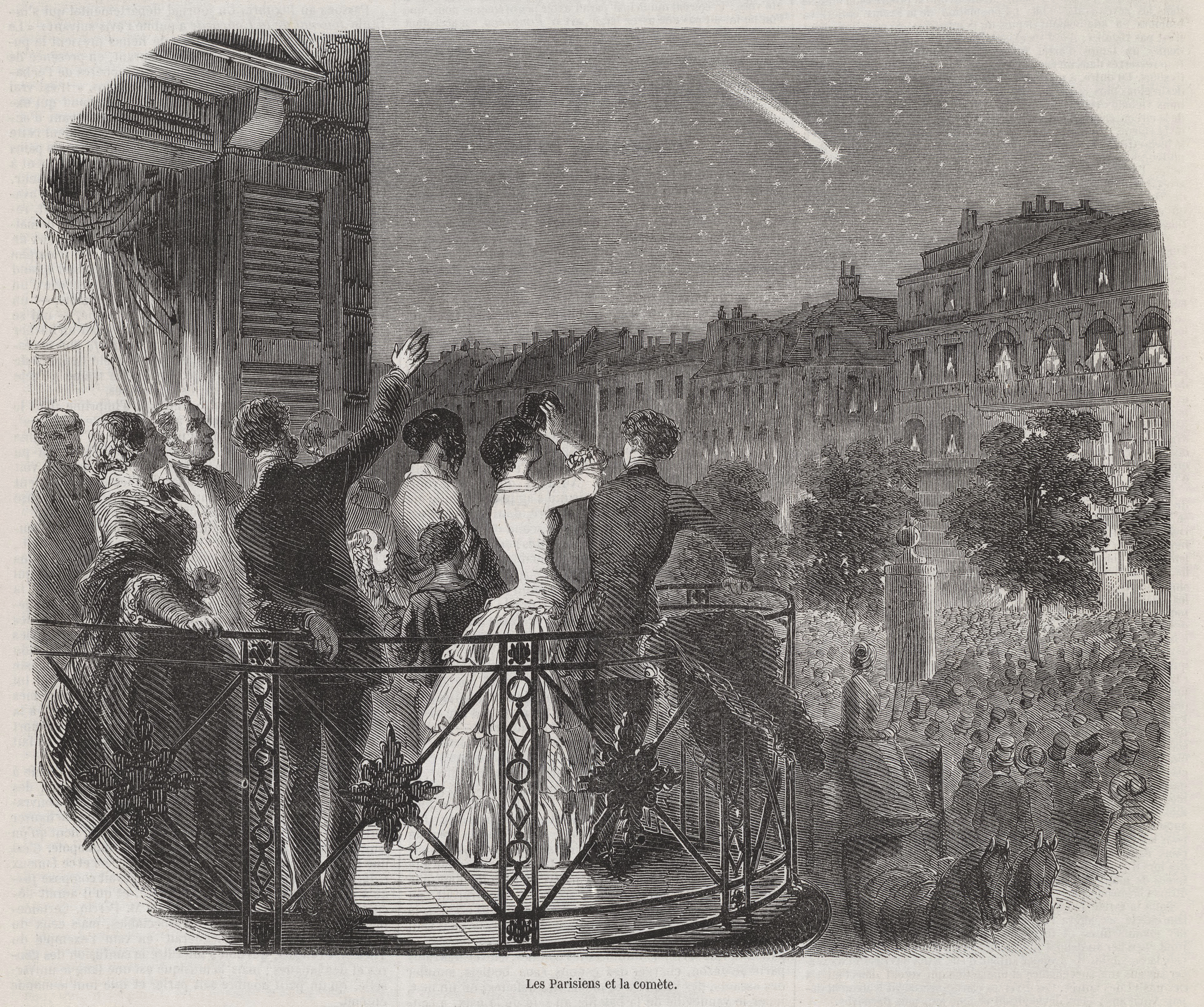 In August and September of 1853, Parisians were able to observe traces of a comet that had previously been spotted throughout Europe.